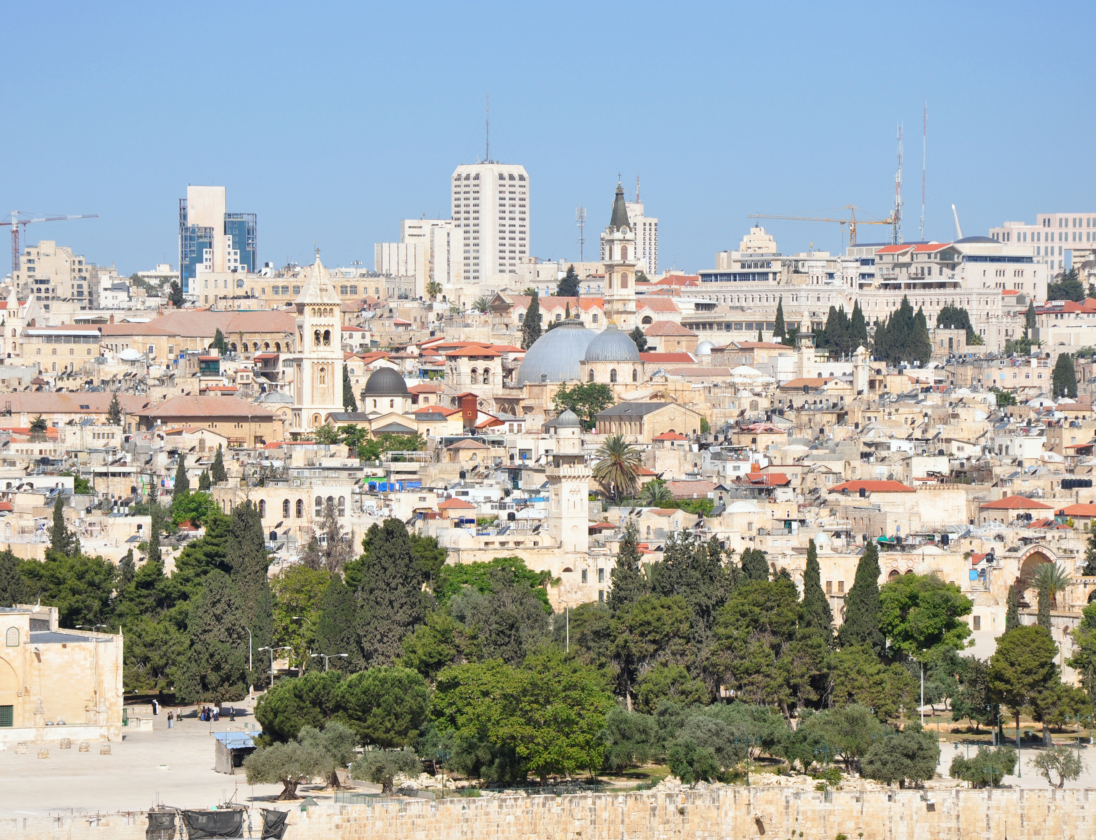 Jerusalem Old City